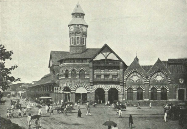 Bombay's depot for food produce.